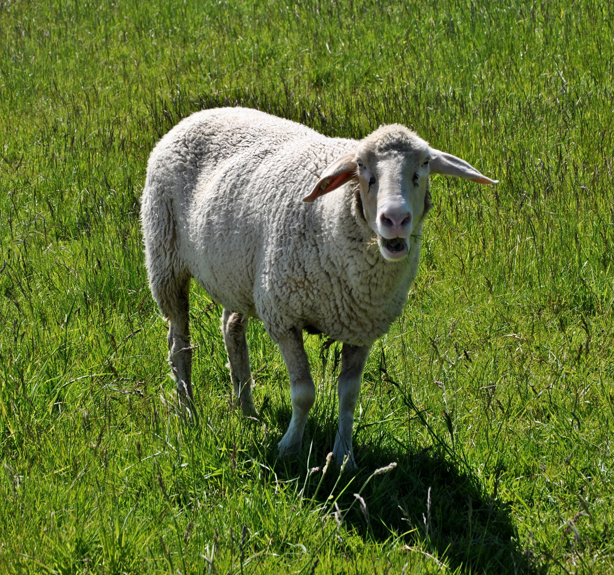 A sheep at the dike of Krummhörn (Lower Saxony, Germany) This photograph was taken with a Nikon D3000.